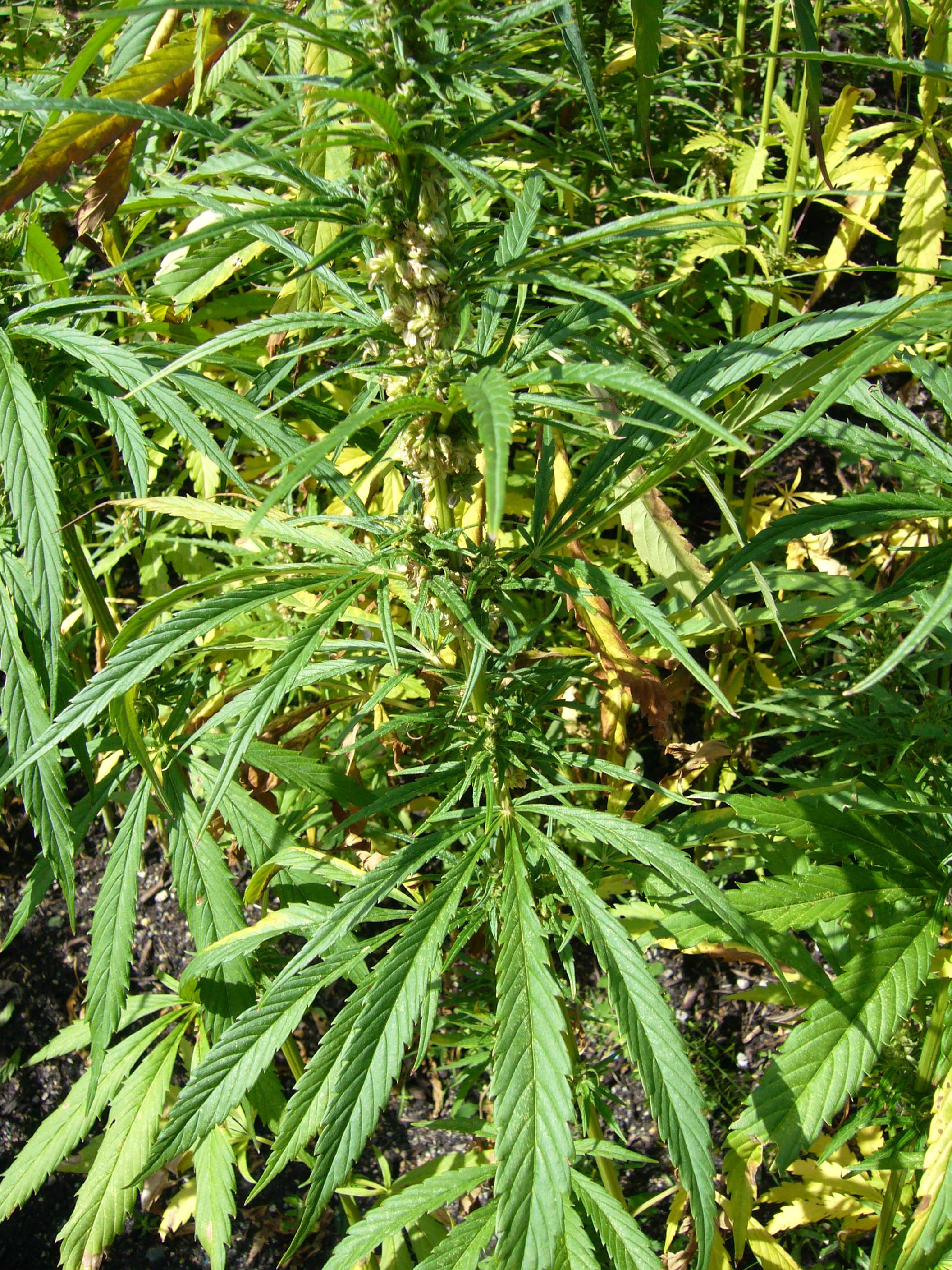 An outdoor hemp plantation in the UK. This particular varietal of Cannabis sativa is "industrial hemp" which contains ultra-low levels of Delta-THC and other cannabinoids, which makes it useless for recreational/medicinal purposes.